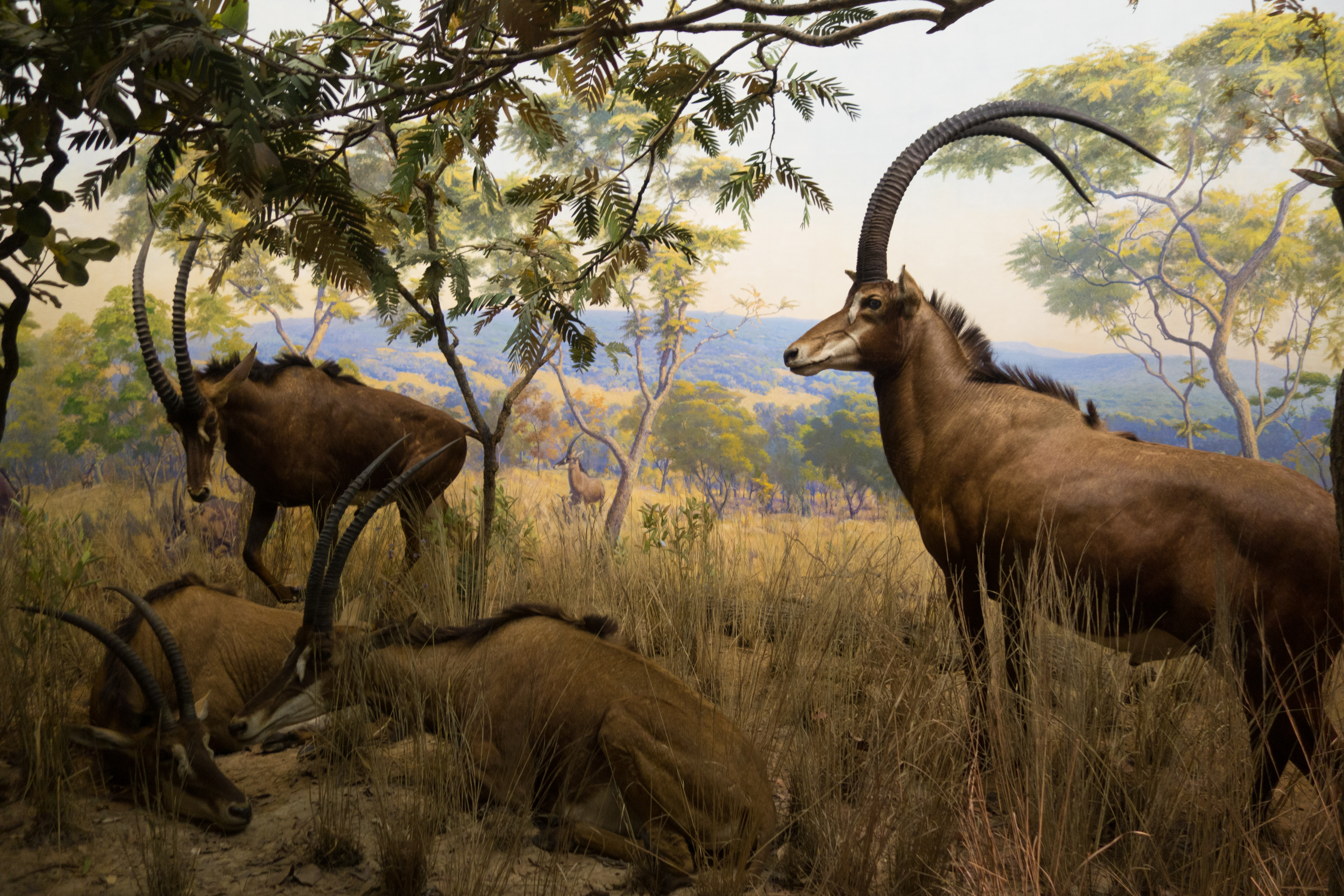 American Museum of Natural History, New York City, 2015